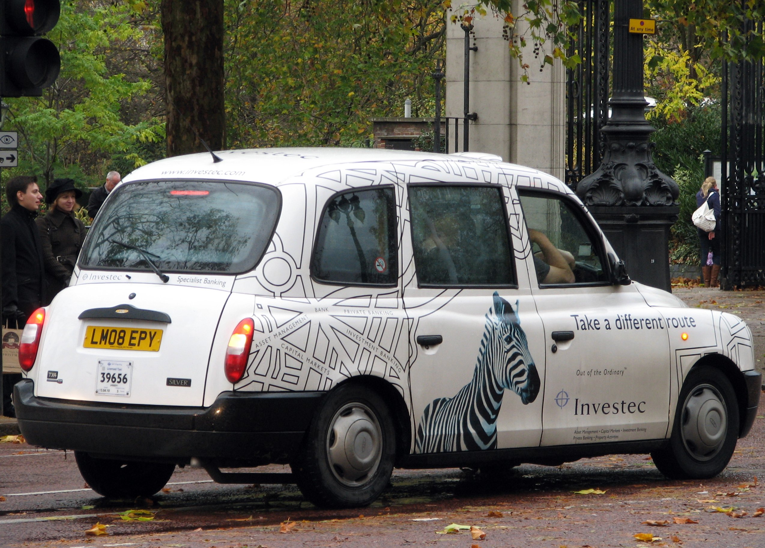 LTI TX4 "Silver" advertising for Investec. Date of First Registration: 04 April 2008